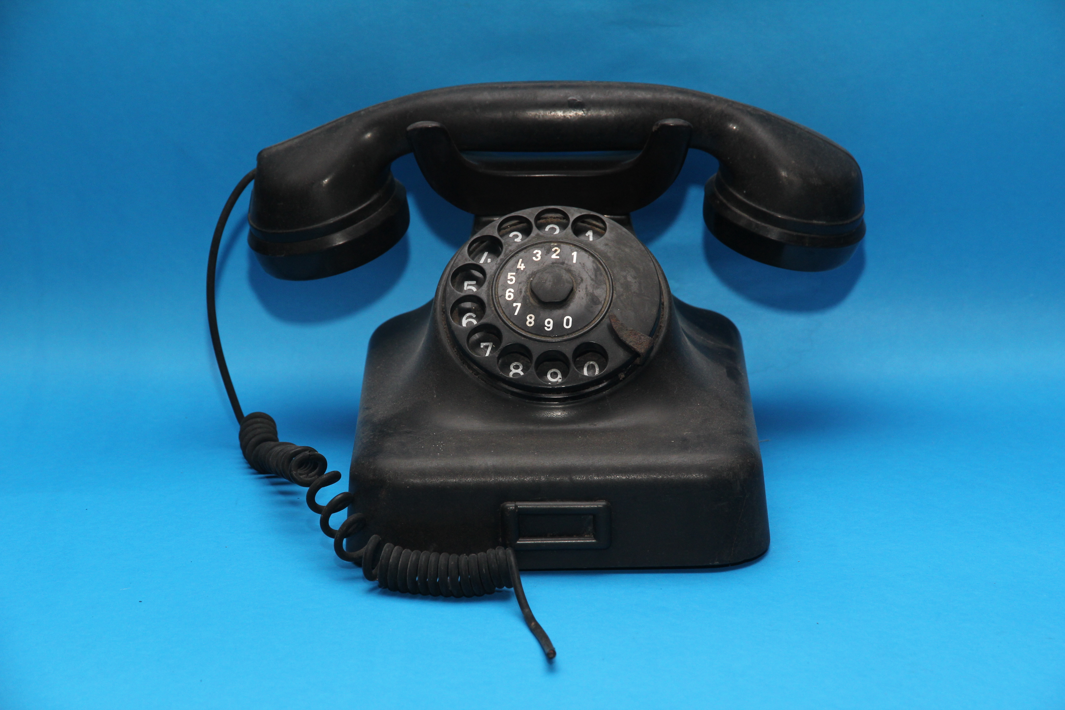 Black telephone set was very popular in the 20th century in many countries of the world.